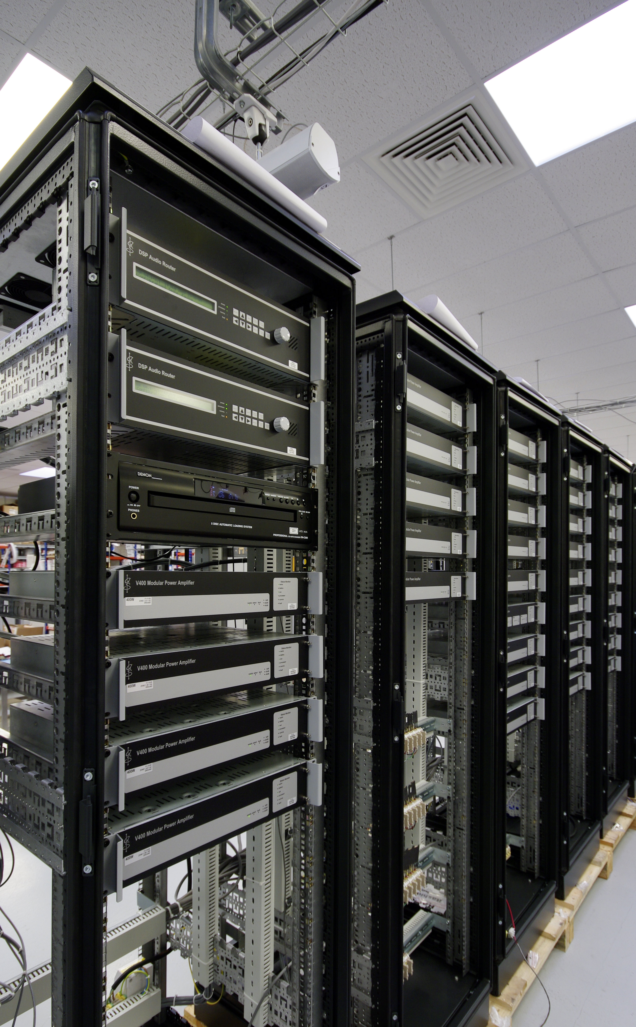 Public Address System assembled in racks for a major international airport consisting of amplifiers, mixers and routers